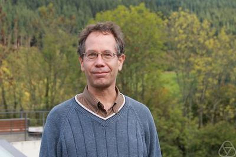 Christof Geiß, Oberwolfach 2013